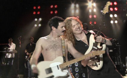 Tribute band Gary Mullen and The Works perform their show One Night of Queen in the Swindon Wythen Theatre in 2008.